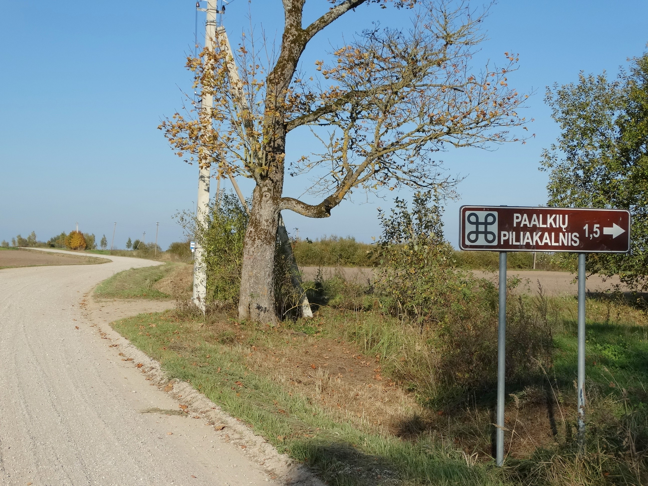 Diržonys, Paalkiai Hillfort, Elektrėnai Municipality, Lithuania